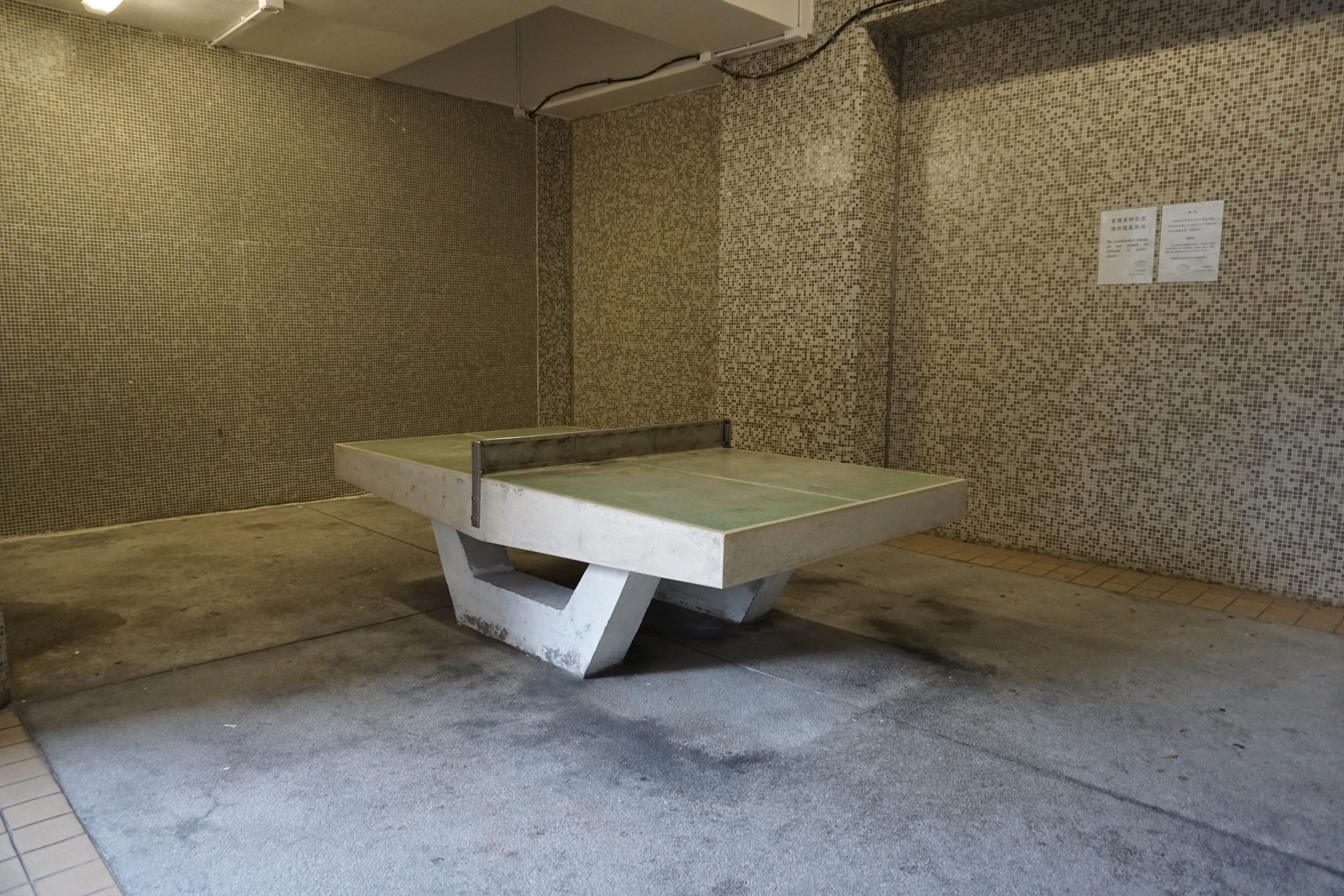 Tin Yuet Estate in Tin Shui Wai, Hong Kong.